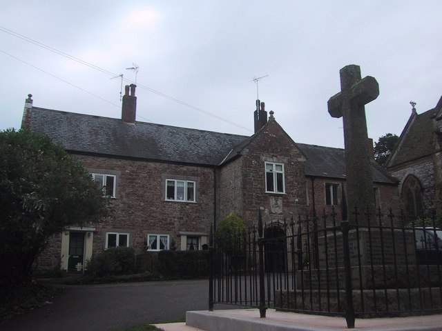 Otterton Priory and Cross in front of Otterton Church. Above the porch of the priory, now in multiple occupation, exists the armorials of the Duke family sculpted in stone